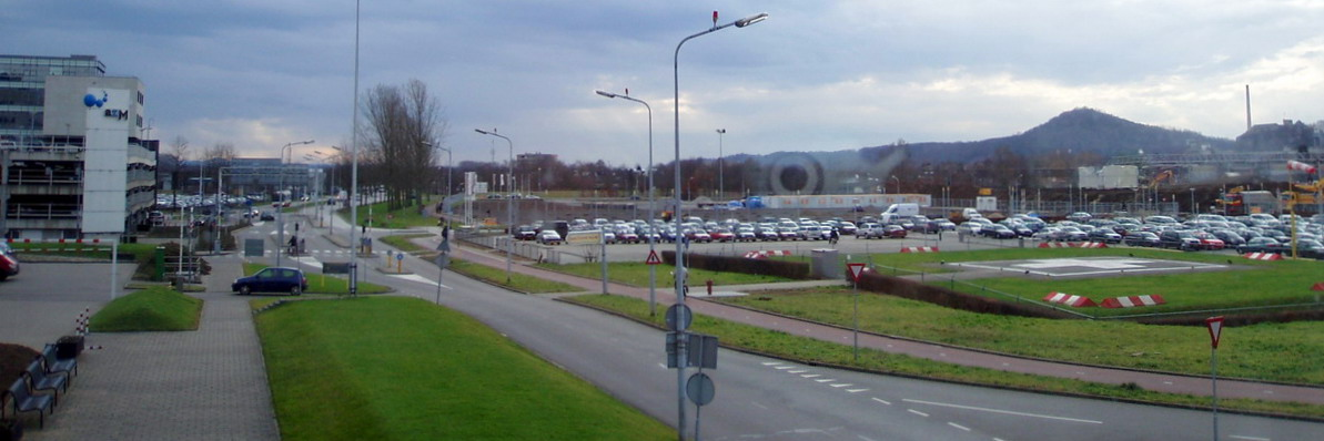 Maastricht, the Netherlands. View of parking lots opposite the Maastricht University Hospital on the site of the failed Campus Randwyck project.